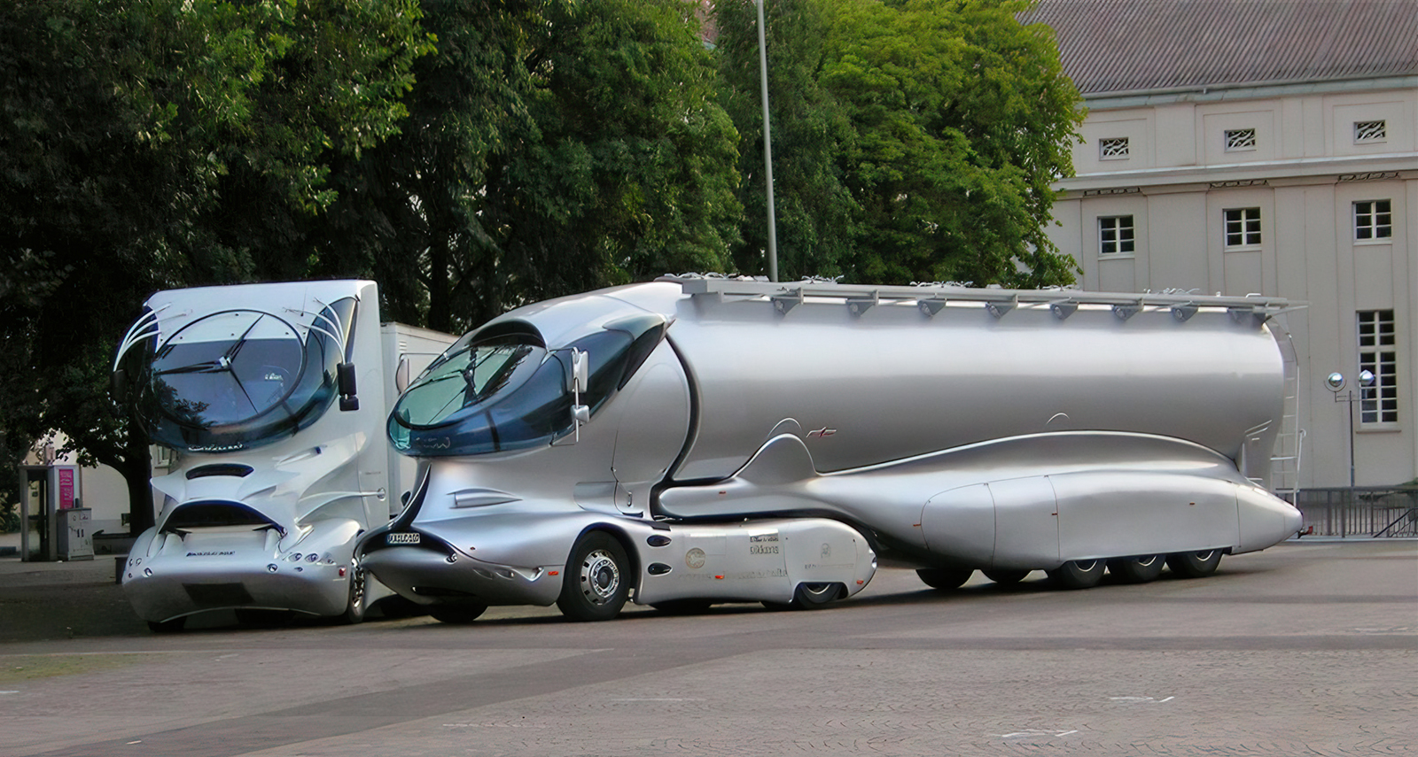 Trucks designed by Luigi Colani in front of the Nancyhalle in Karlsruhe, Germany in late august of 2005.